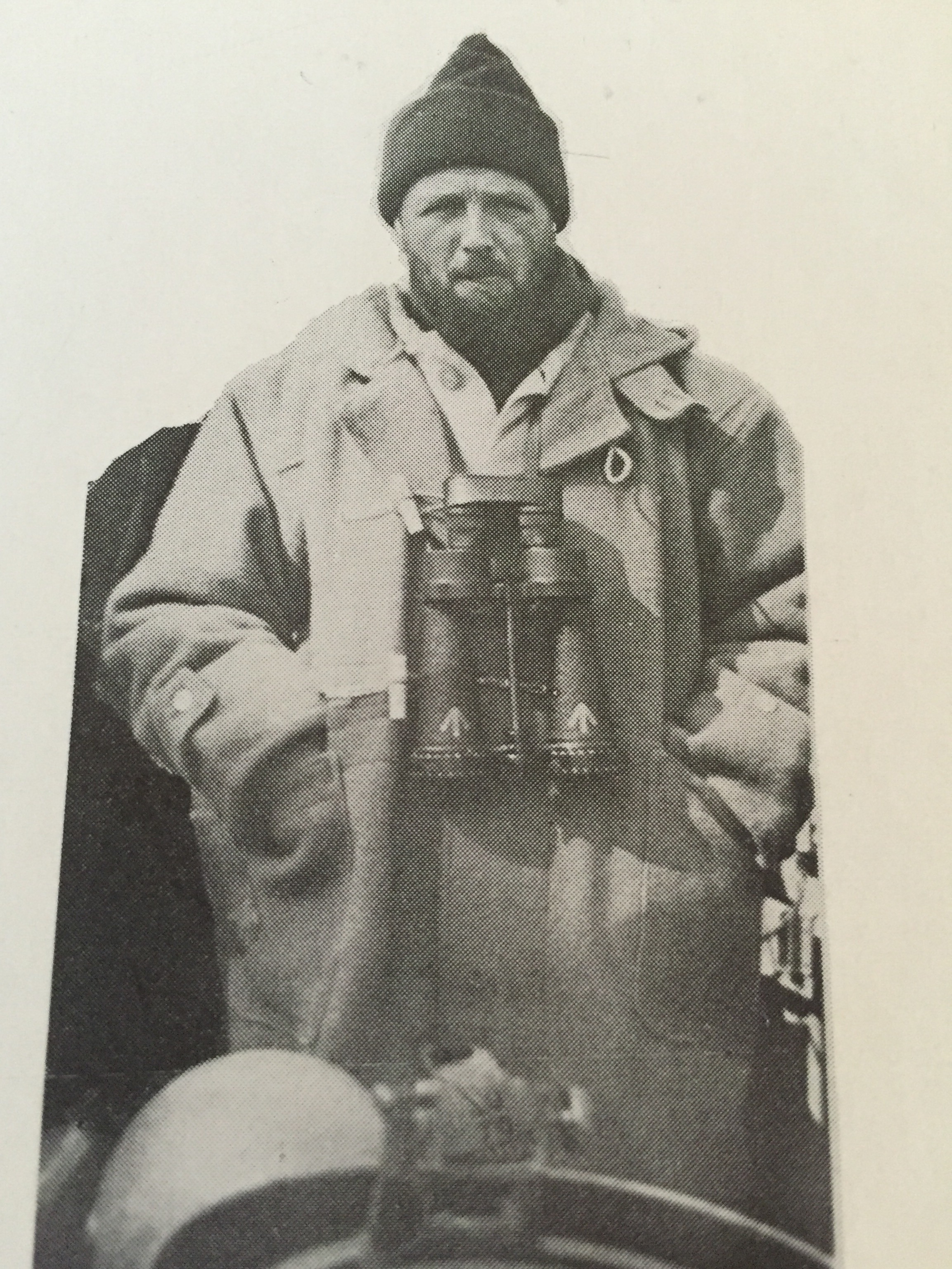 Lt. Commander Hill after PQ17 on HMS Ledbury L90